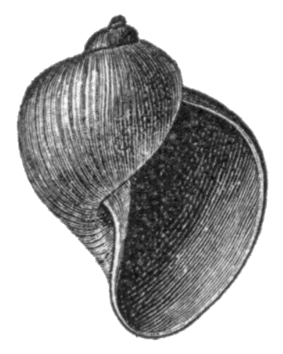 Drawing of the apertural view of the shell of Stagnicola utahensis